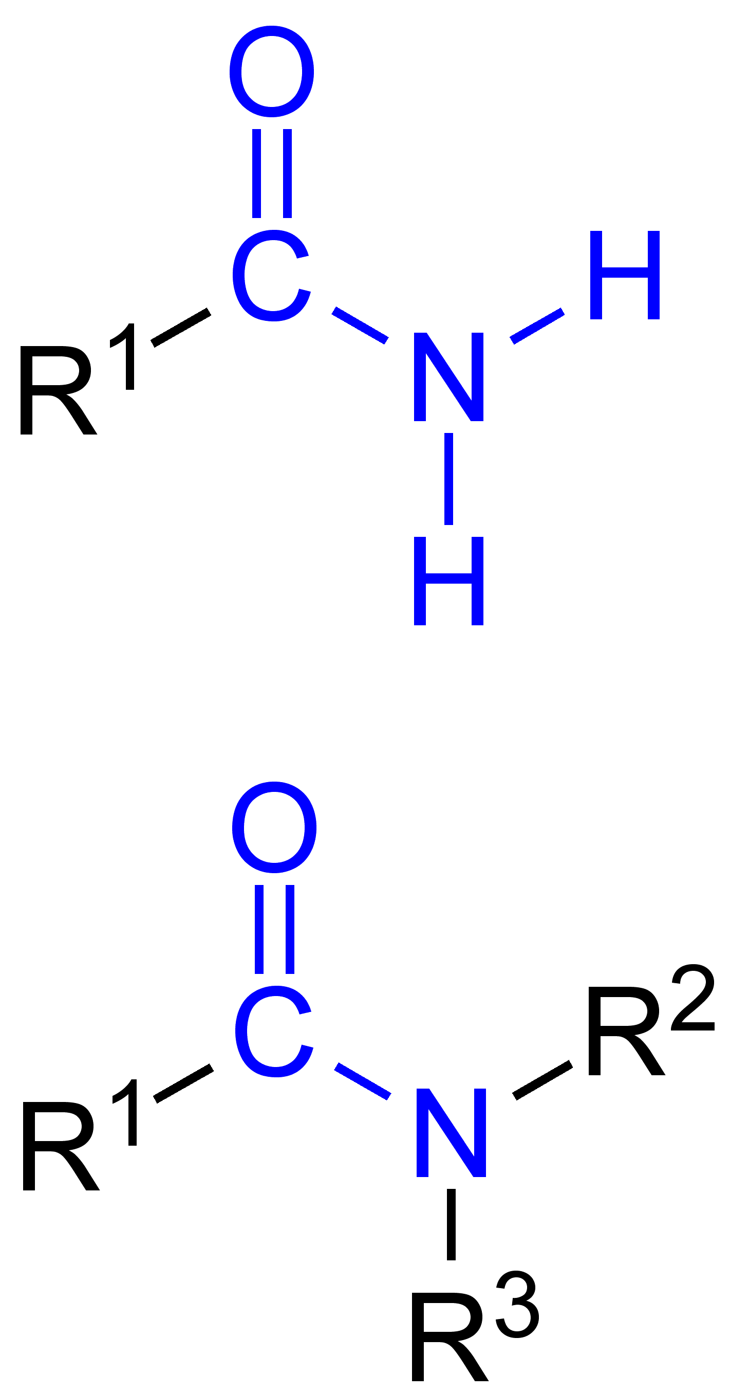 Amide_General_Formulae